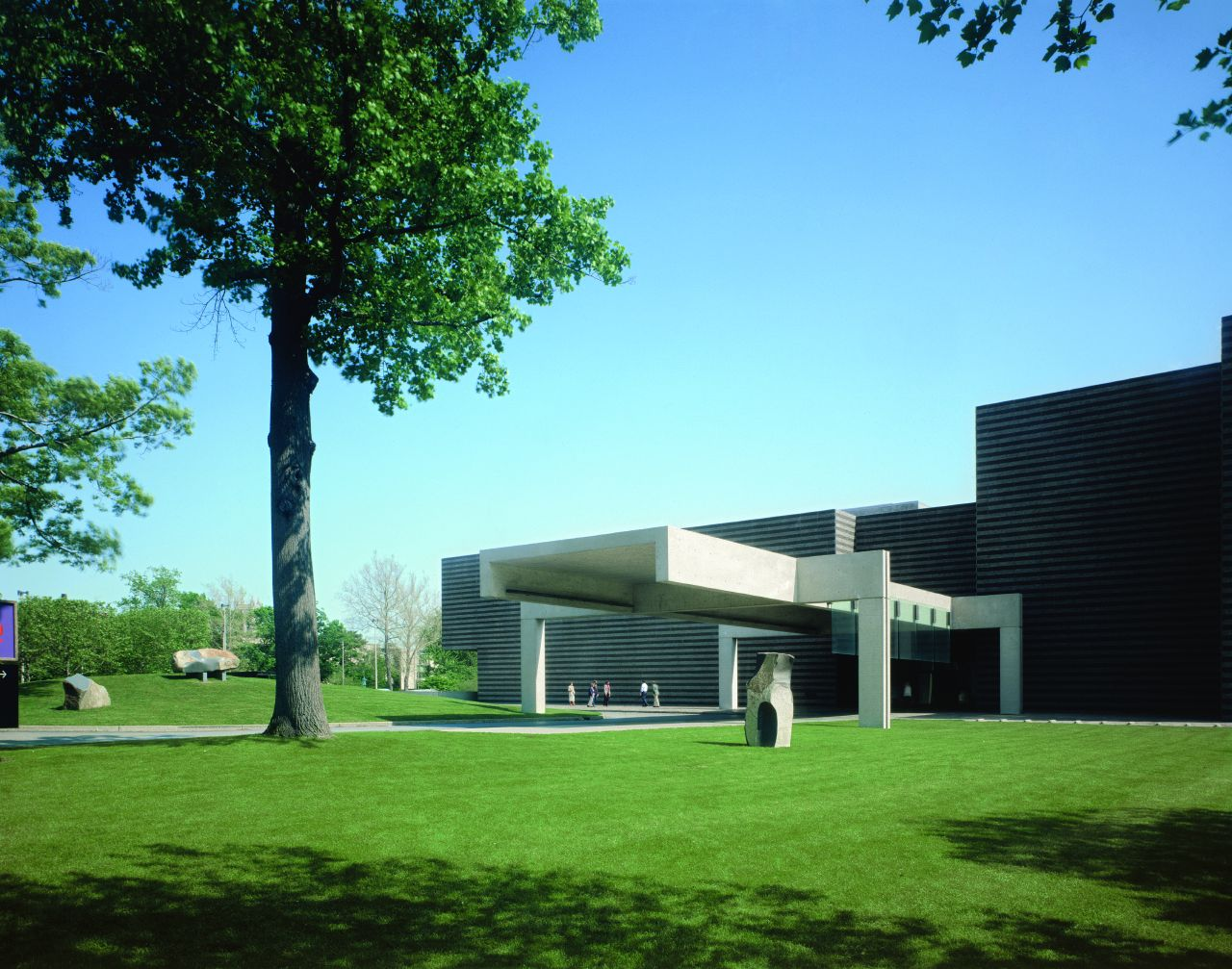 The Marcel Breuer wing of the Cleveland Museum of Art, prior to the construction of the Rafael Viñoly addition